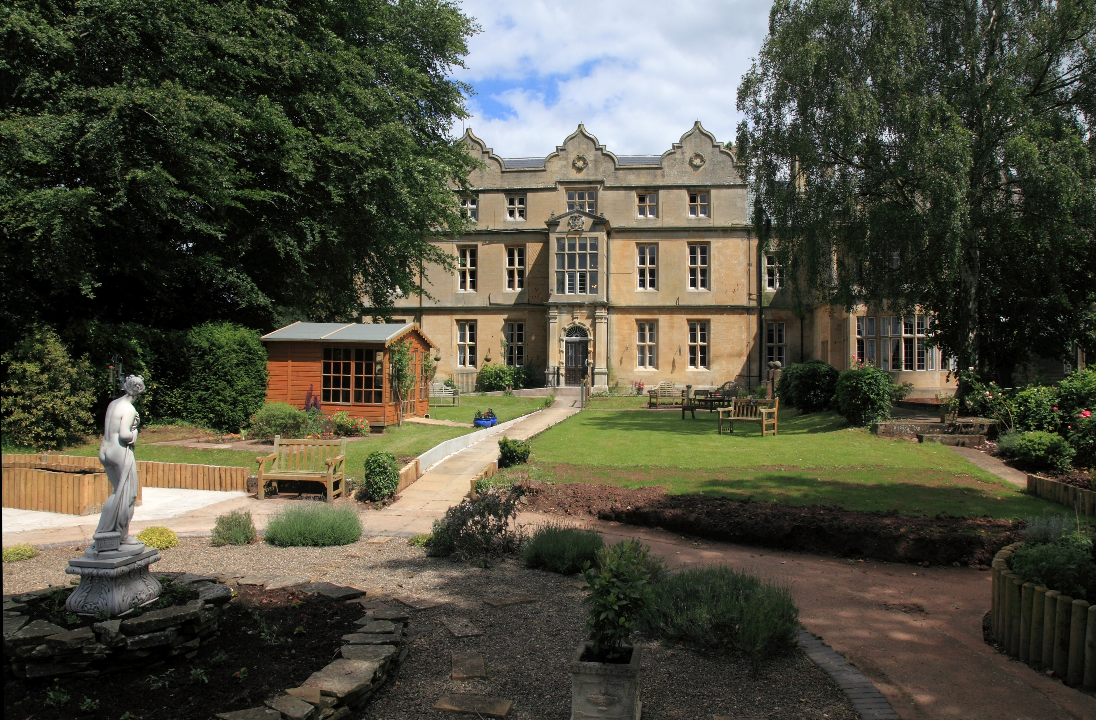 Astley Hall, Worcestershire, home of Stanley Baldwin, 1st Earl Baldwin of Bewdley, KG PC FRS (1867–1947), three times Prime Minister of the United Kingdom